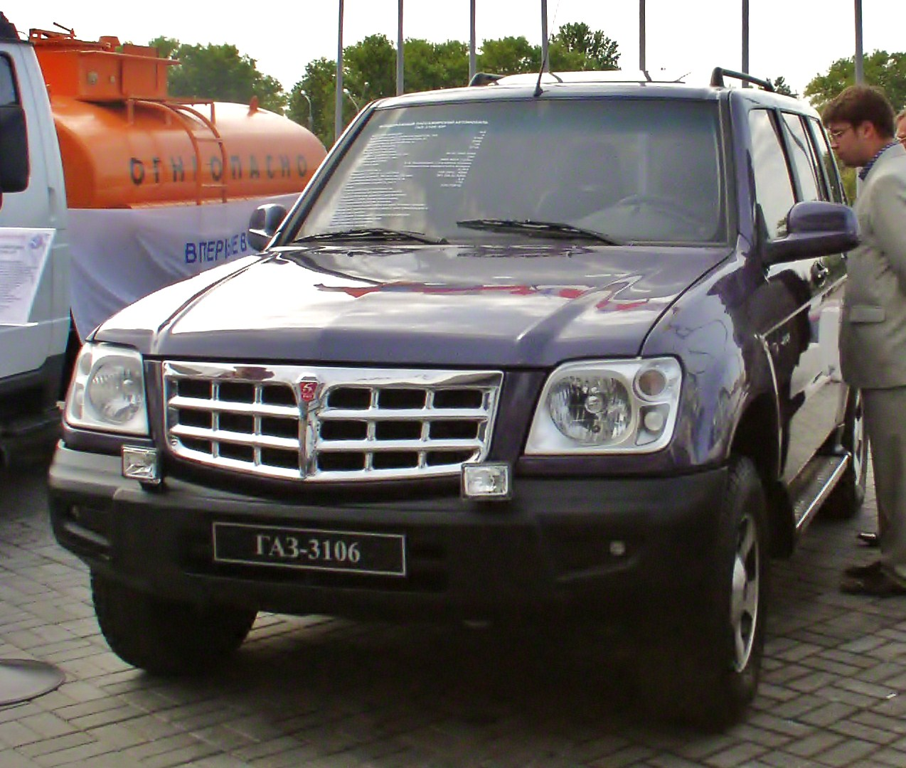 GAZ 3106.